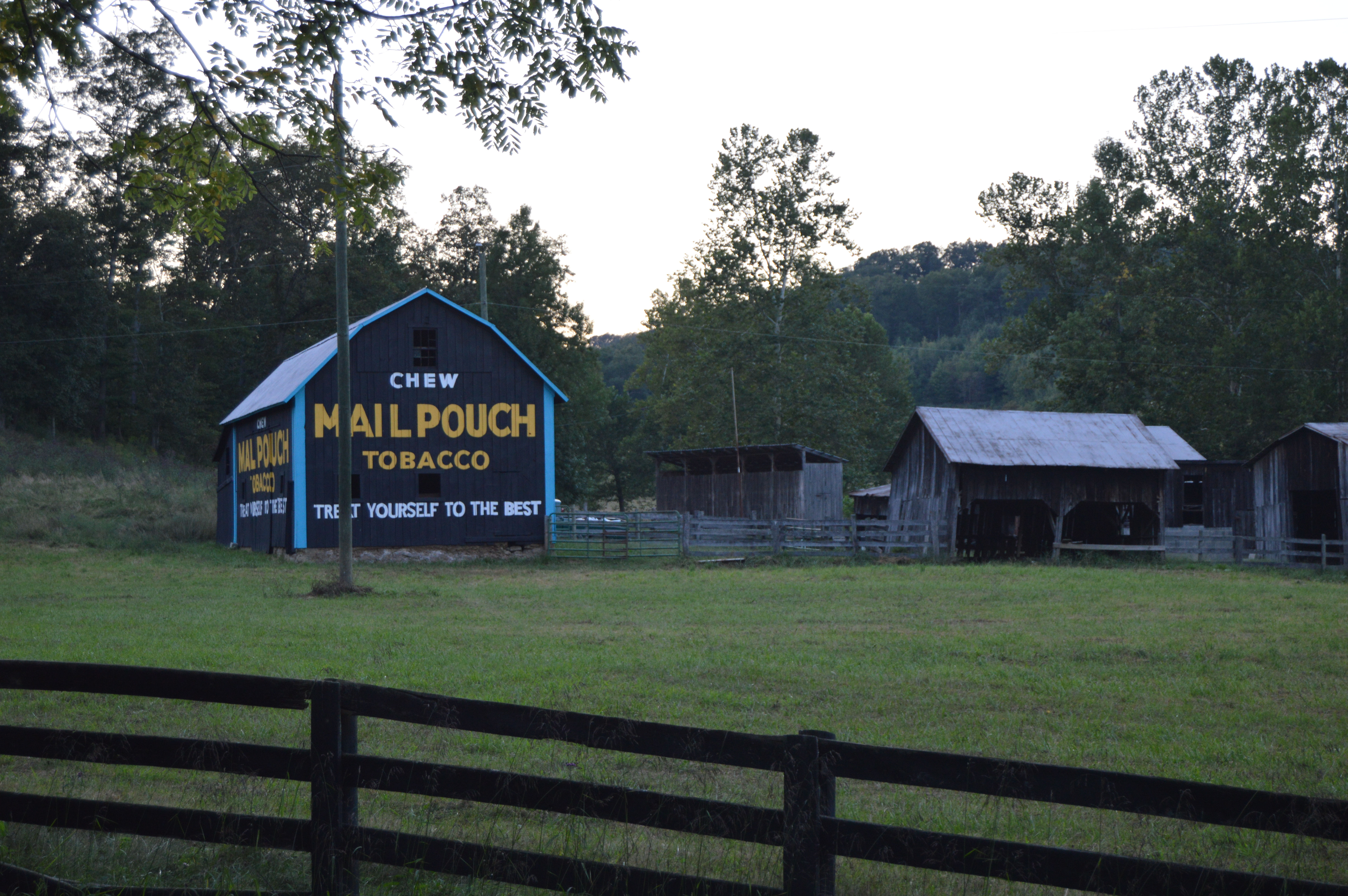 A Mail Pouch Tobacco Barn and sheds at a farm on State Route 73 in eastern Union Township, Scioto County, Ohio, United States.